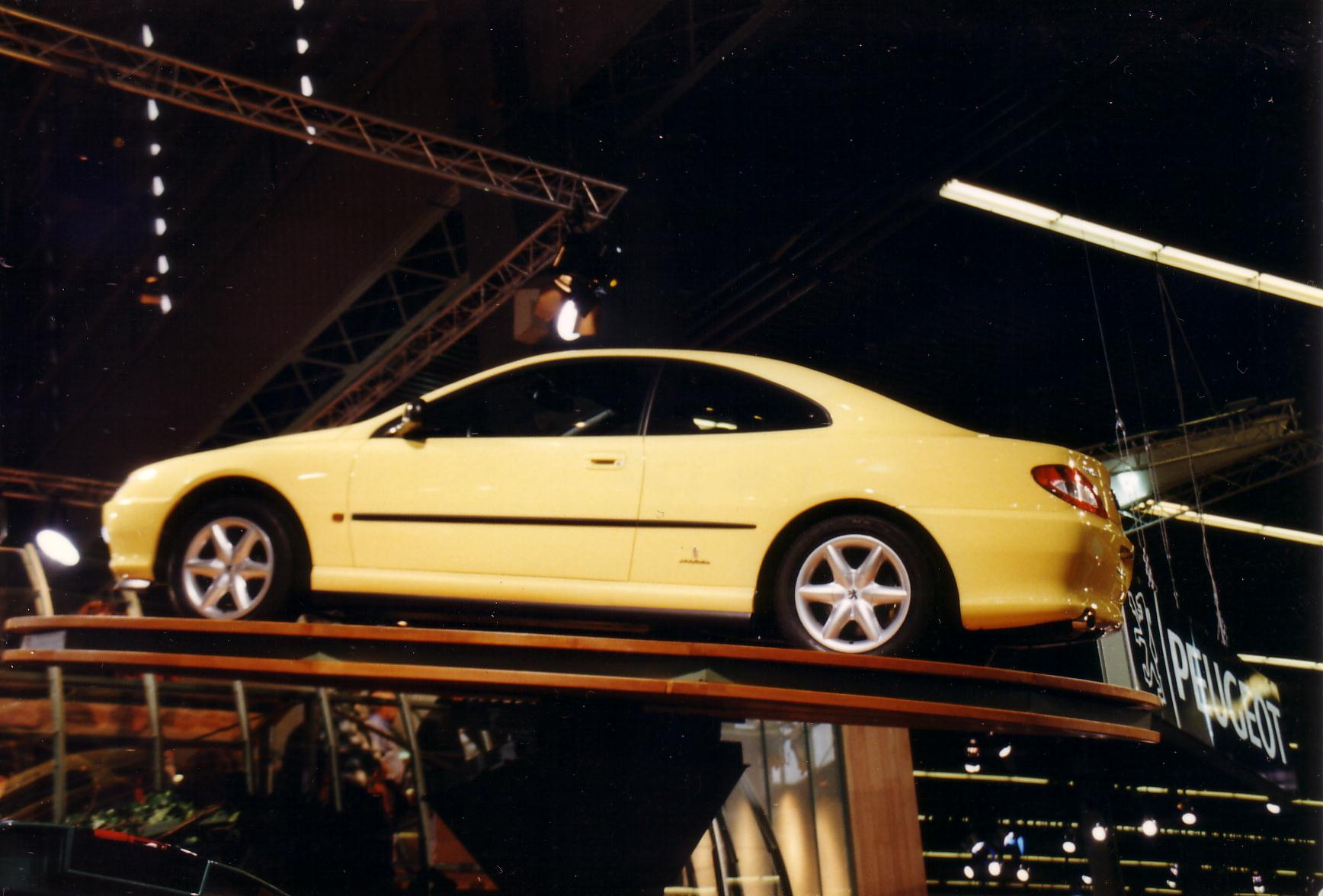 Presentation of the Peugeot 406 coupe at the Salon Mondial de l'Automobile de Paris, at Porte de Versailles. (October 1996).